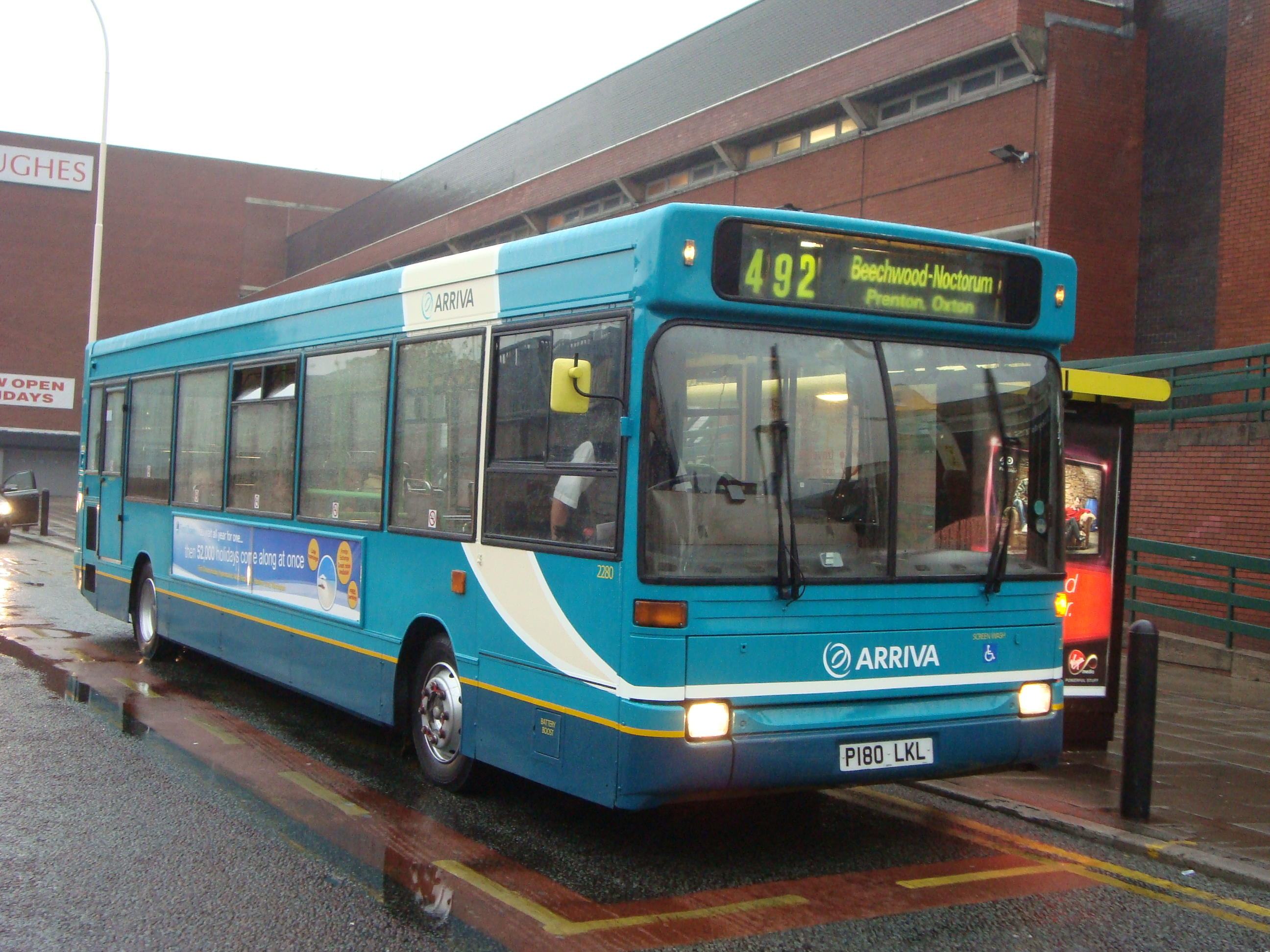 Arriva North West Dennis Dart SLF 10.7M with Plaxton Pointer bodywork laying over at TJ Hughes in Birkenhead Town Centre.